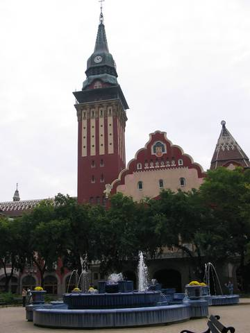 Subotica